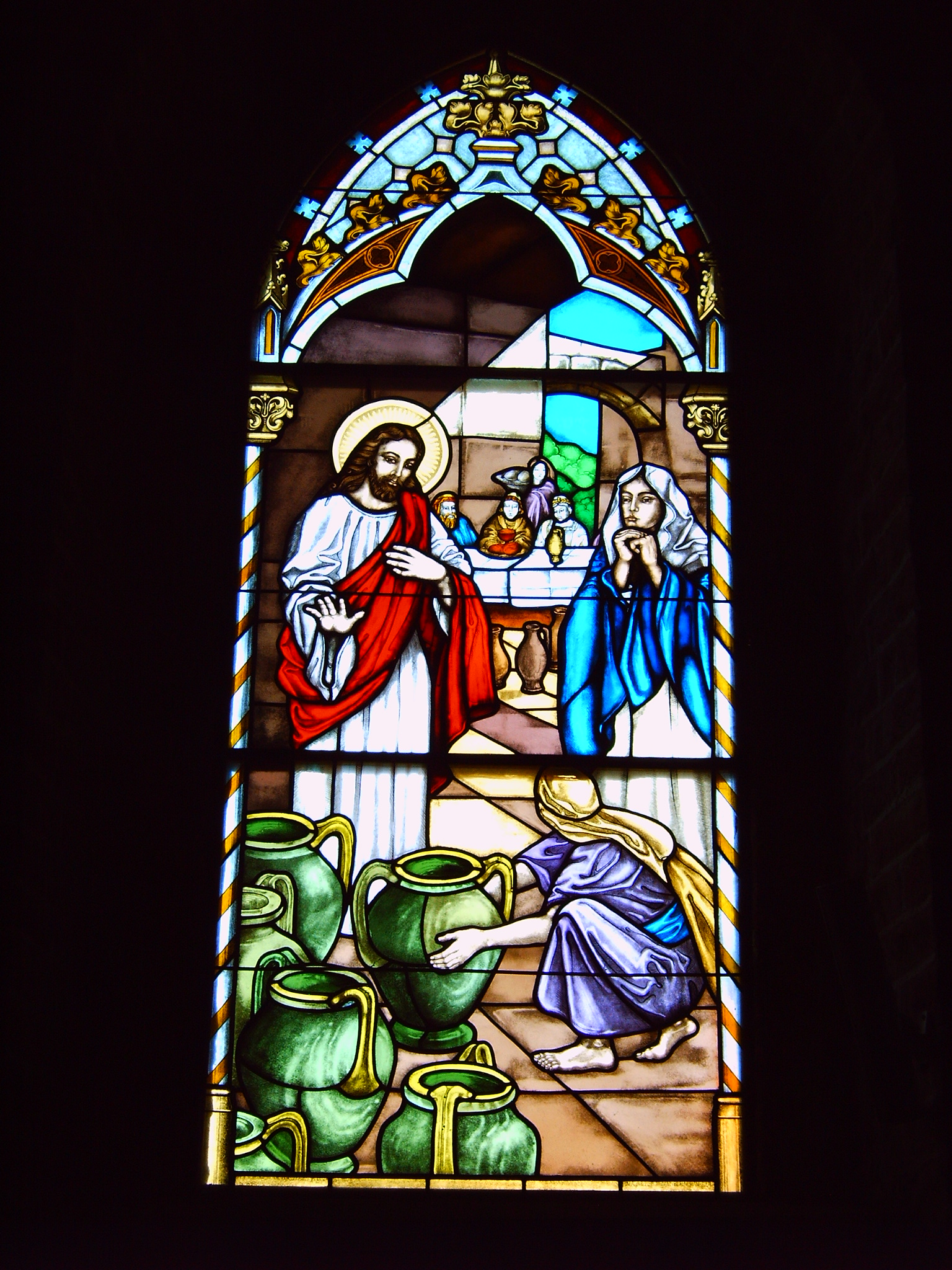 Poland, Mielno, church, stained glass - Marriage at Cana